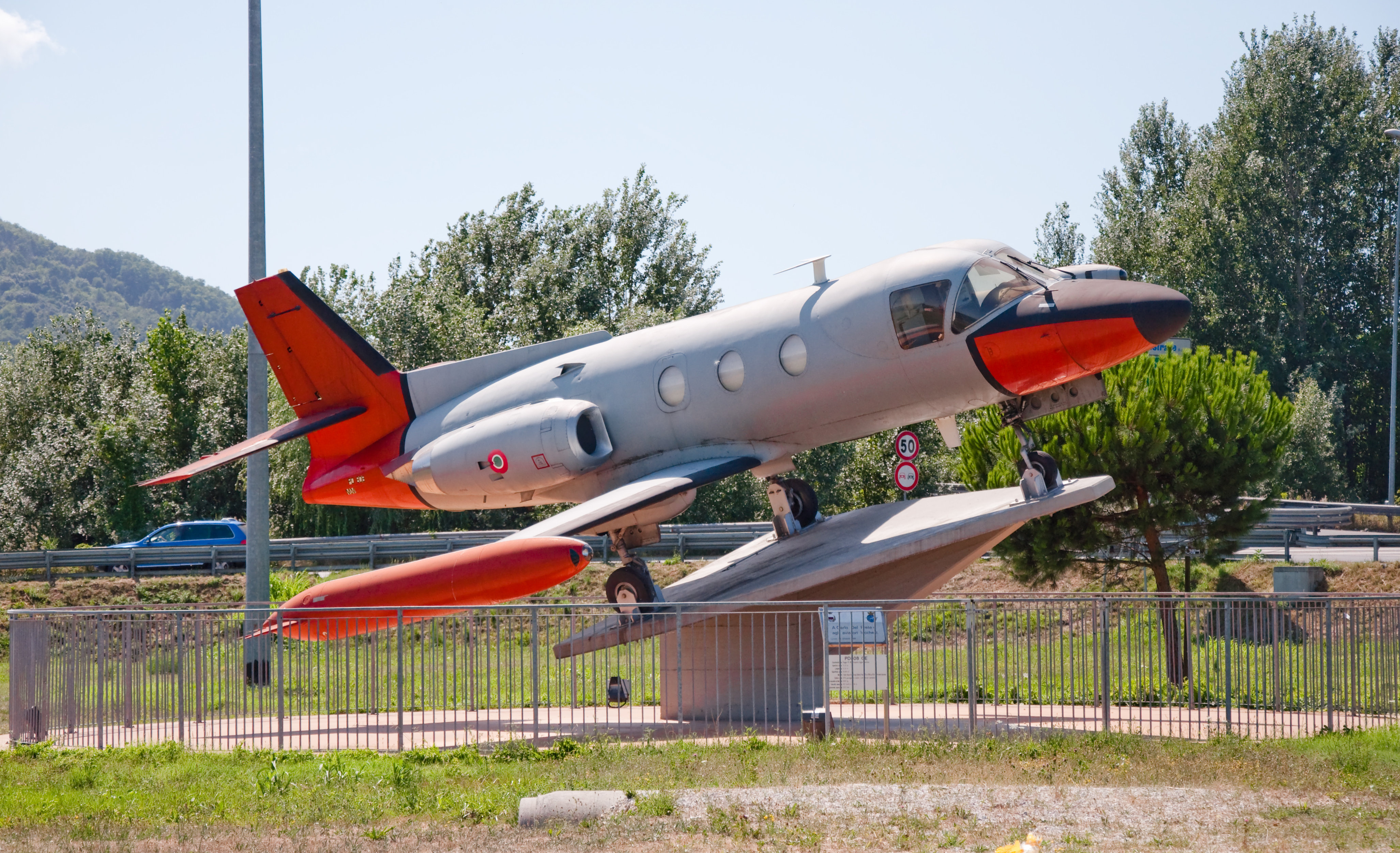 Memorial of the Italian pilot Carlo Del Prete showing a Piaggio Douglas PD.808 in Lucca, Italy. Only 29 aircraft of this type have ever been built.